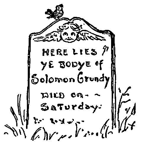 Illustrations from the novel A Book of Nursery Rhymes.